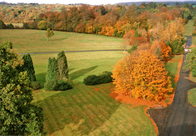 Ashridge Park, Hertfordshire Ashridge Park in autumn, as seen from the tower of Ashridge Management College.